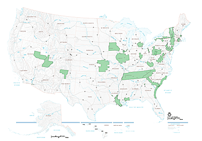 Map of National Heritage Areas in US.